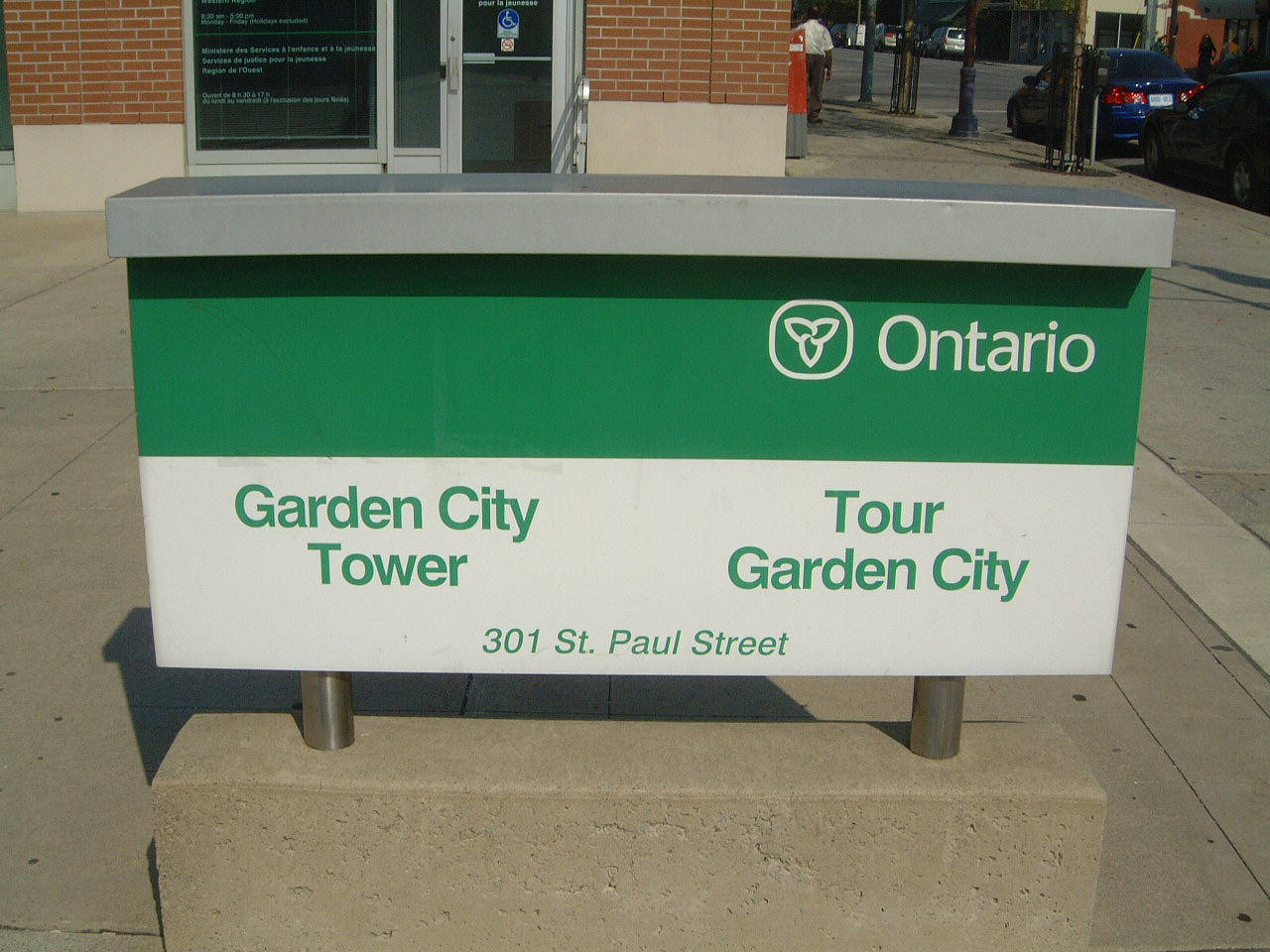 MTO building entrance sign on St. Paul Street. This is part of the complex holding the St. Catharines Transit Terminal.